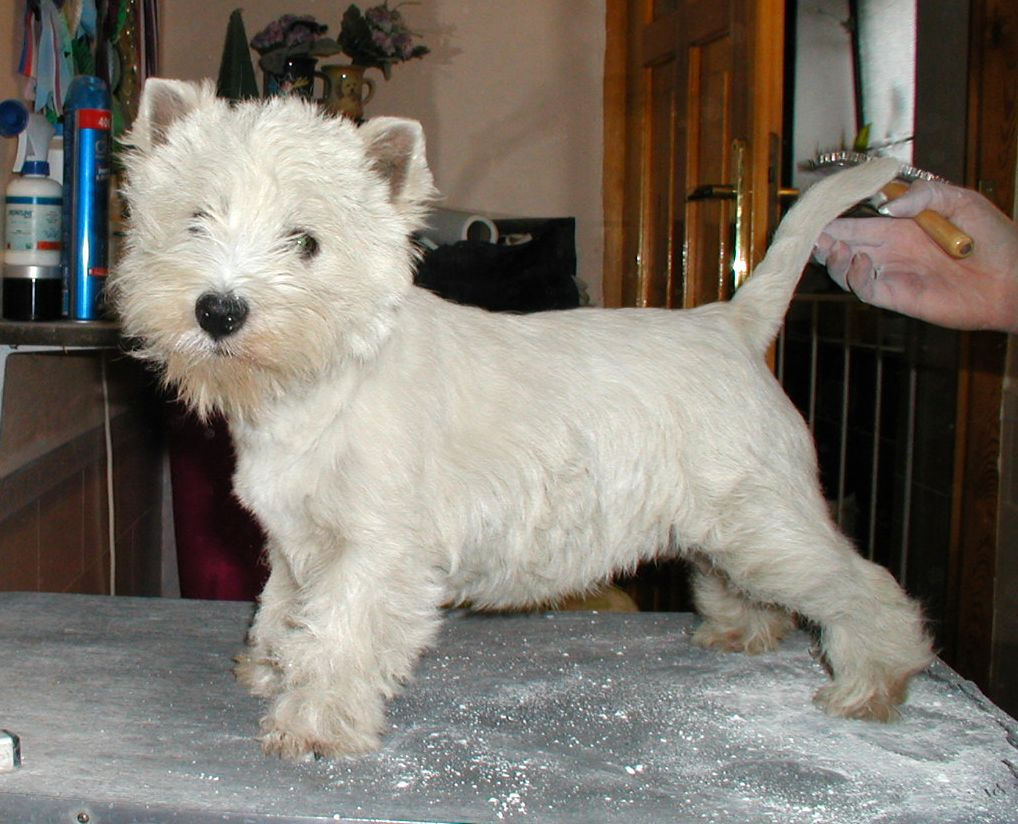 Westie puppy after grooming